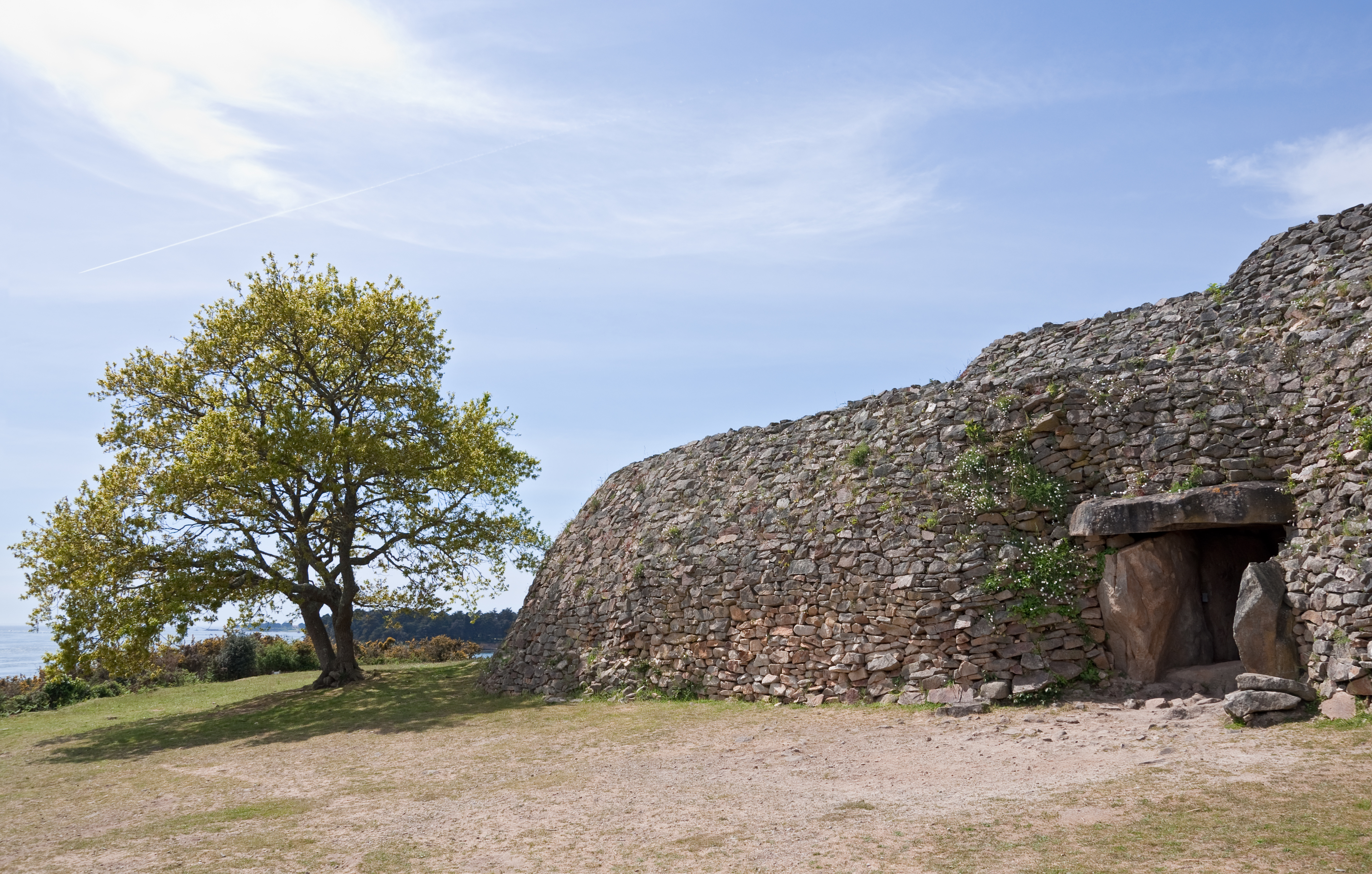 The entrance of the Gavrinis cairn, on Gavrinis Island in the Gulf of Morbihan (Brittany, France).